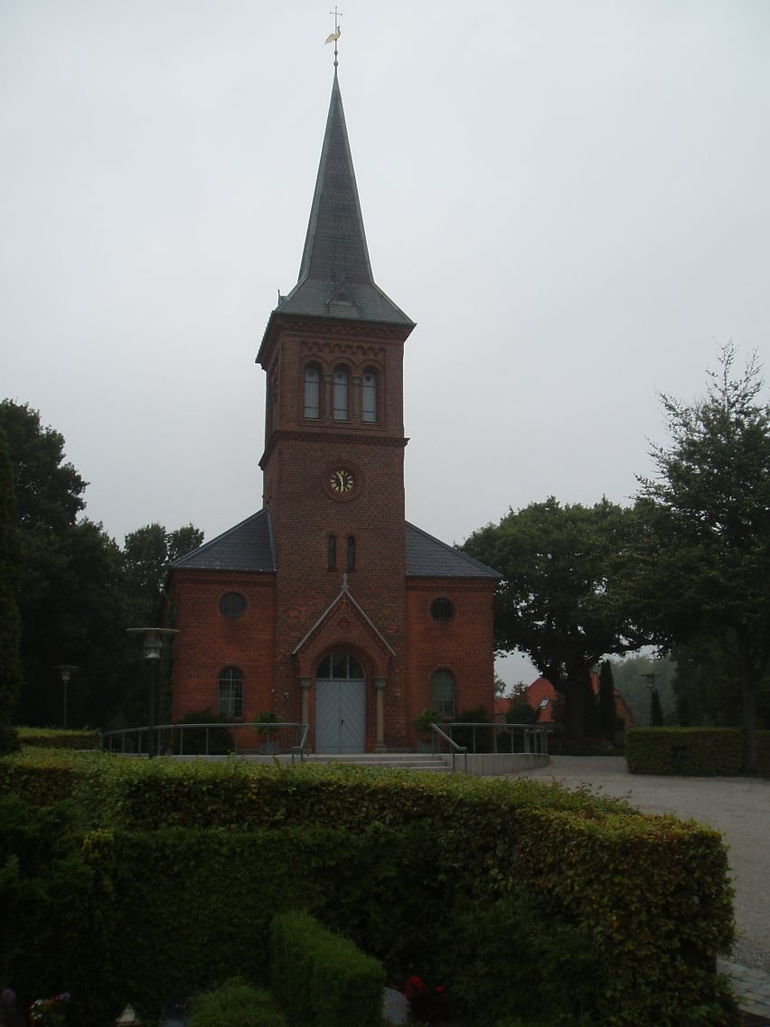 Egebæksvang church seen from Strandvejen